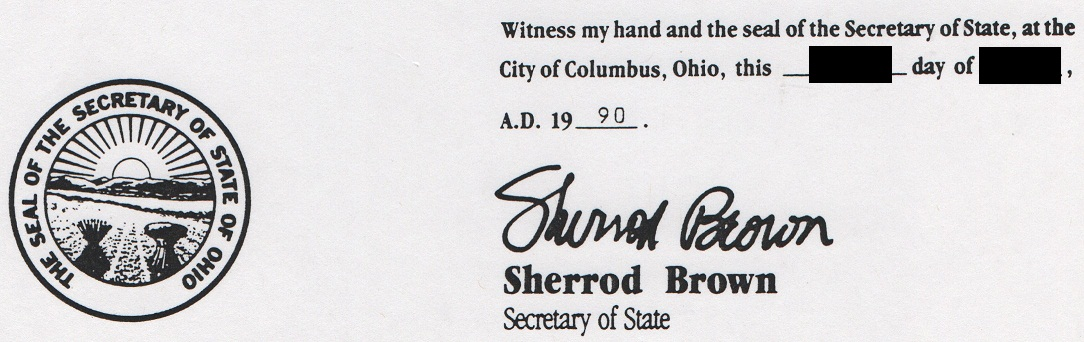 Sherrod Campbell Brown's signature on an official document from his office as Secretary of State of Ohio.